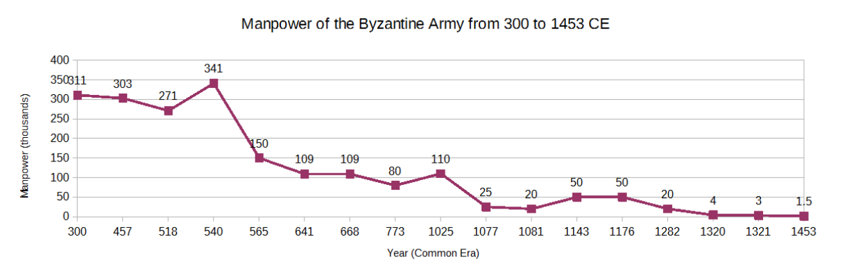 The Number of men in the Byzantine Military excluding naval rowers.